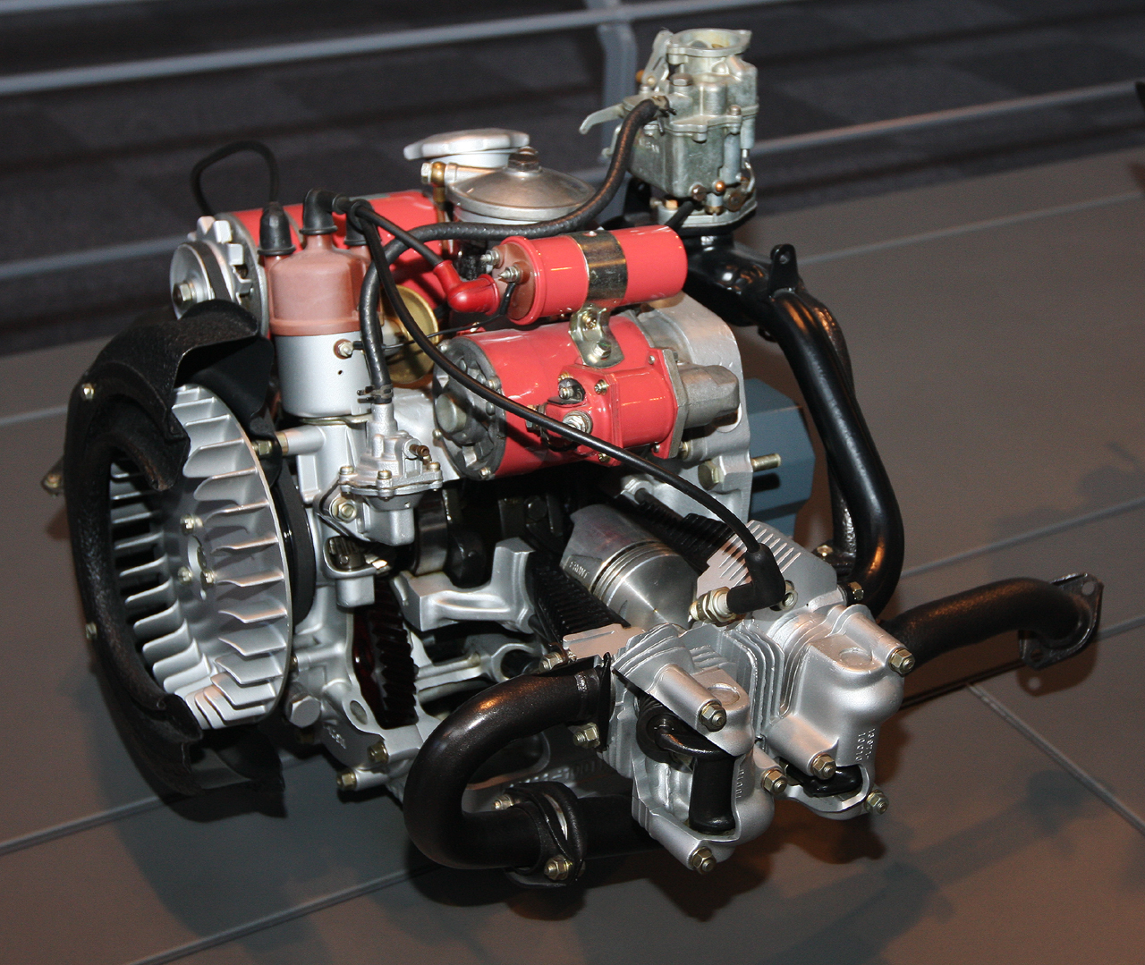 1961 Toyota U Type engine. F2 boxer 697cc.